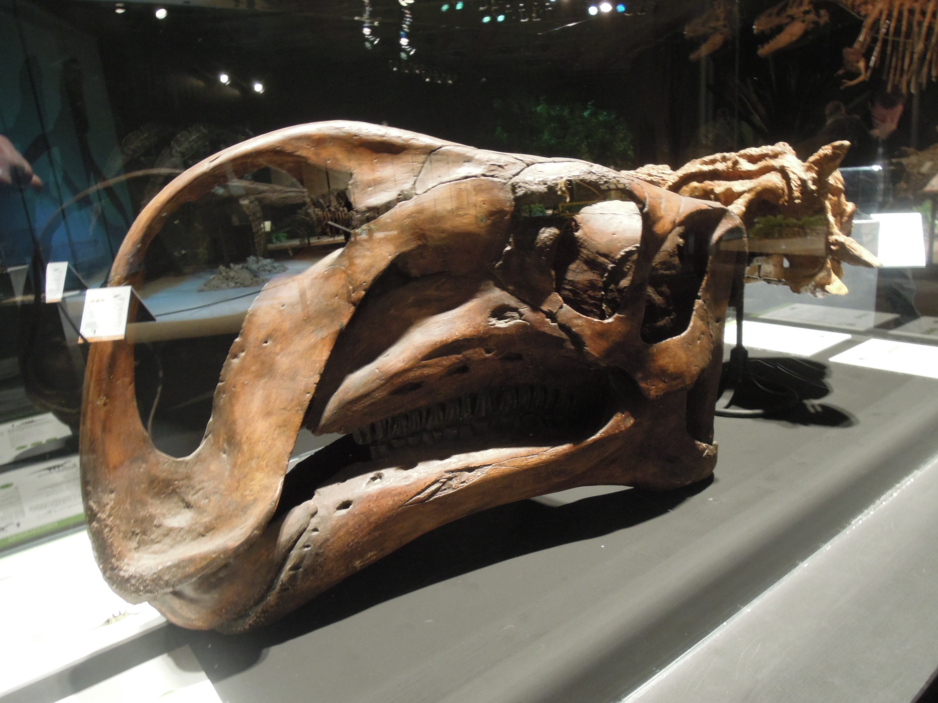 Altirhinus kurzanovi, Dinosaurium exhibition, Prague, Czech Republic